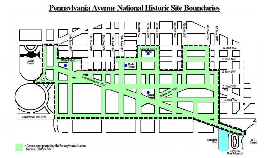 Map of downtown Washington, D.C., in the United States, showing the boundaries (in green) of the Pennsylvania Avenue National Historic Site. Boundaries per Eisen, Jack. "Avenue Given Historic Site Designation." Washington Post. October 1, 1965.